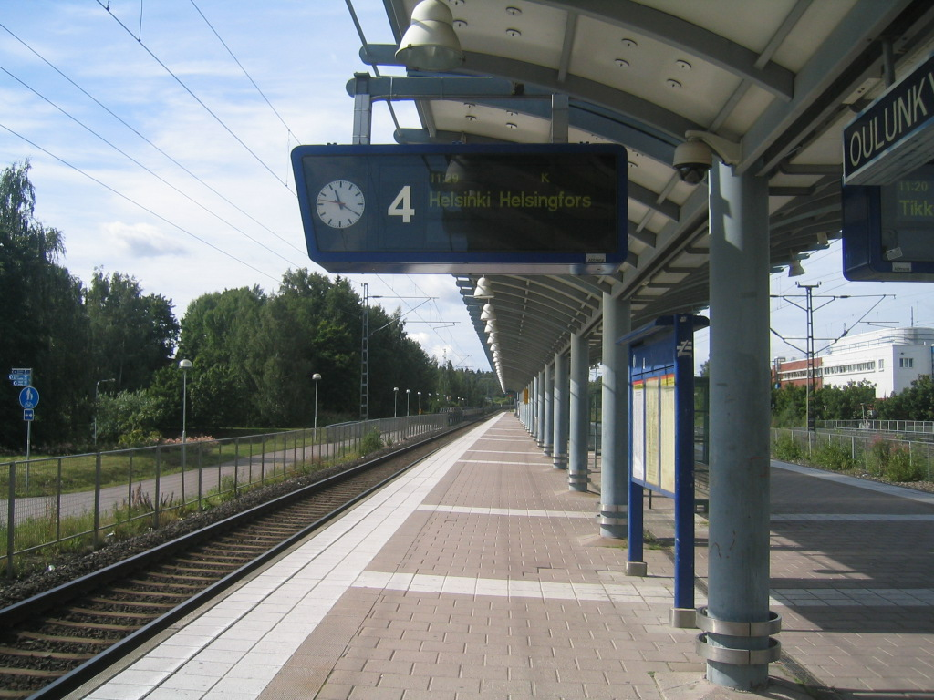 Oulunkylä railway station in Helsinki Finland